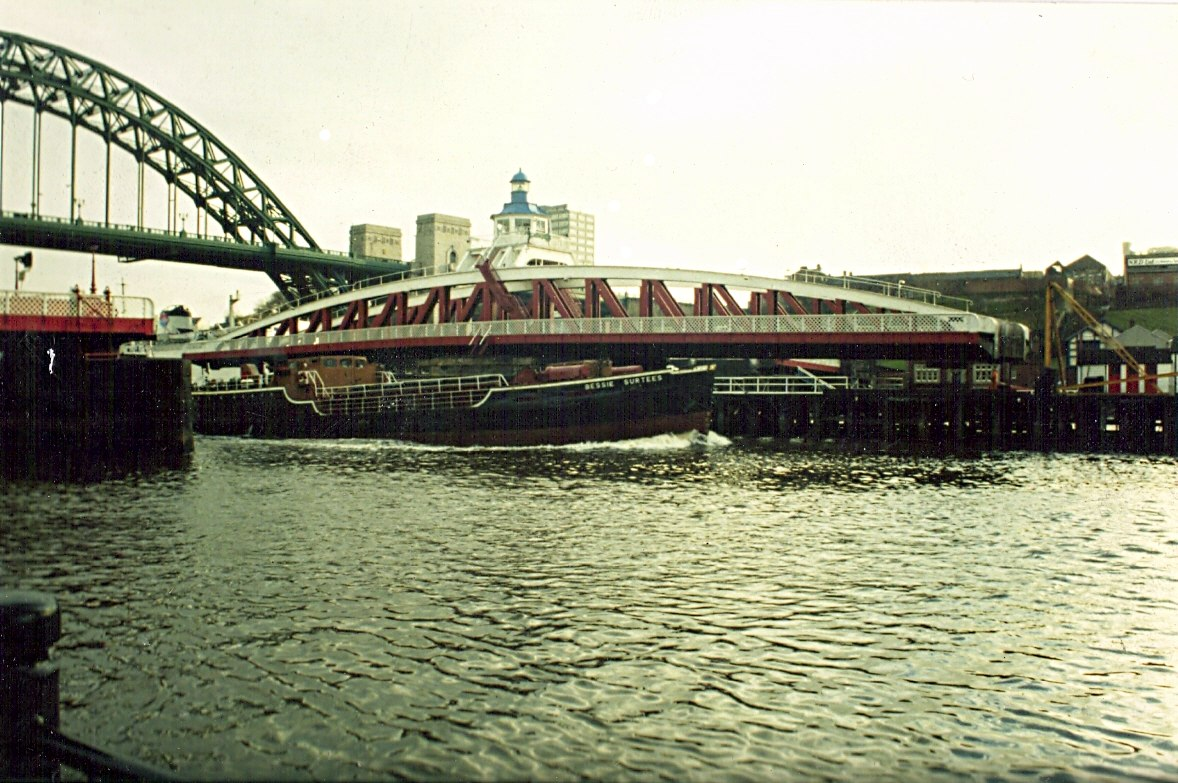 The barge "Bessie Surtees" going past the Tyne swing bridge on return to Stella Power Station - Newcastle upon Tyne.